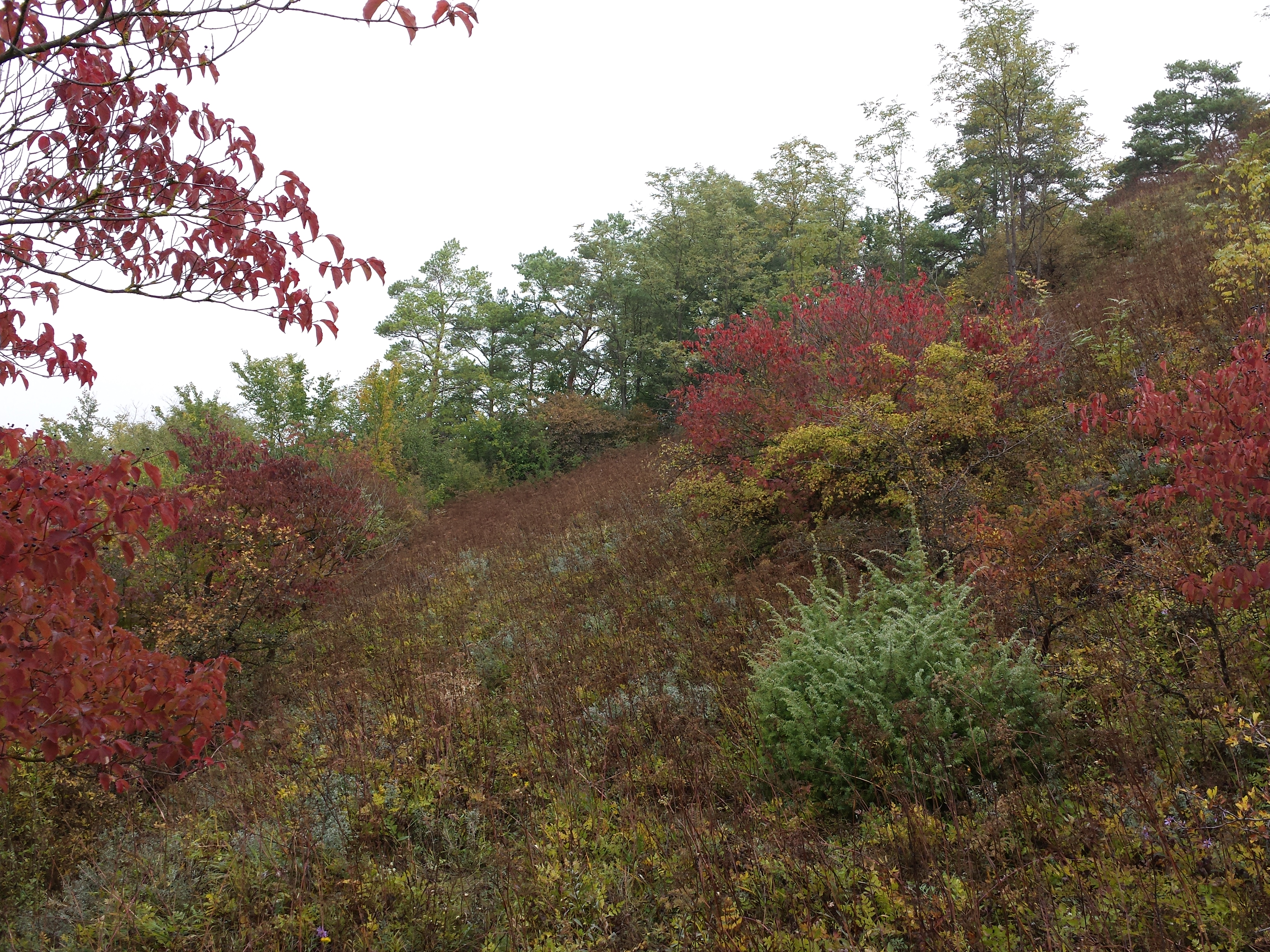 Wartberg near Riedenthal/Ulrichskirchen Dry grassland with Juniper, indicating grazing in former times